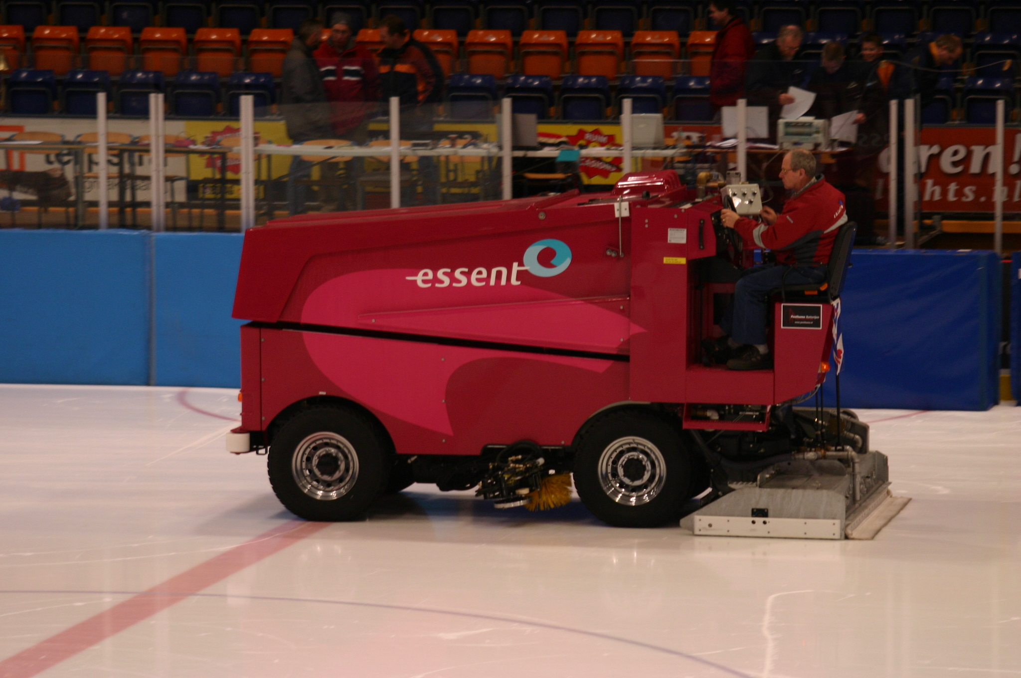 A Zamboni ice resurfacer in Thialf, Heereveen